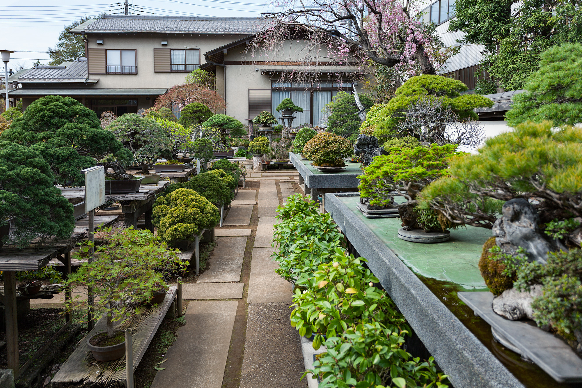 Bonsai Nursery Fuyo-en (jap. 芙蓉園)